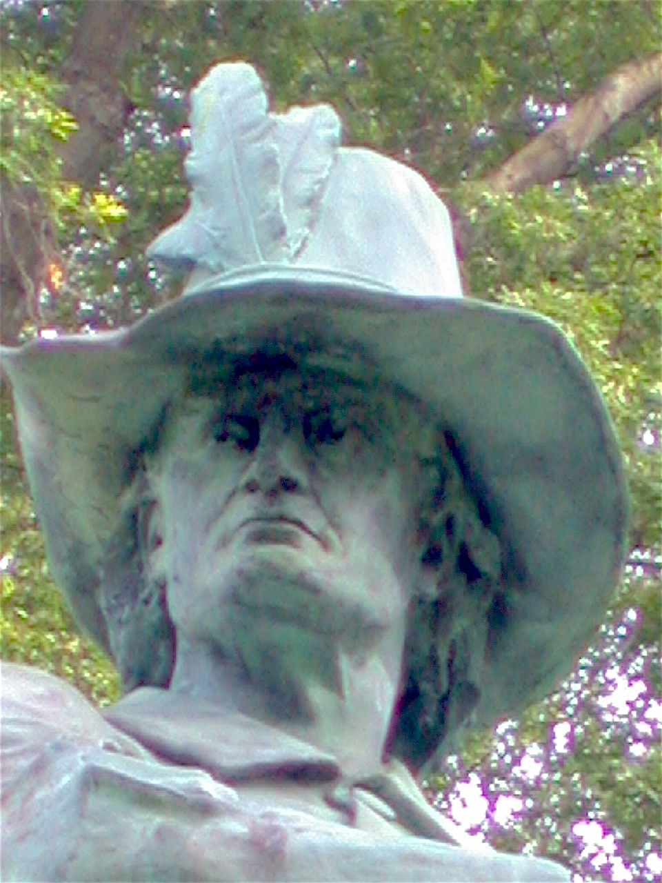 John Mason statue face with hat